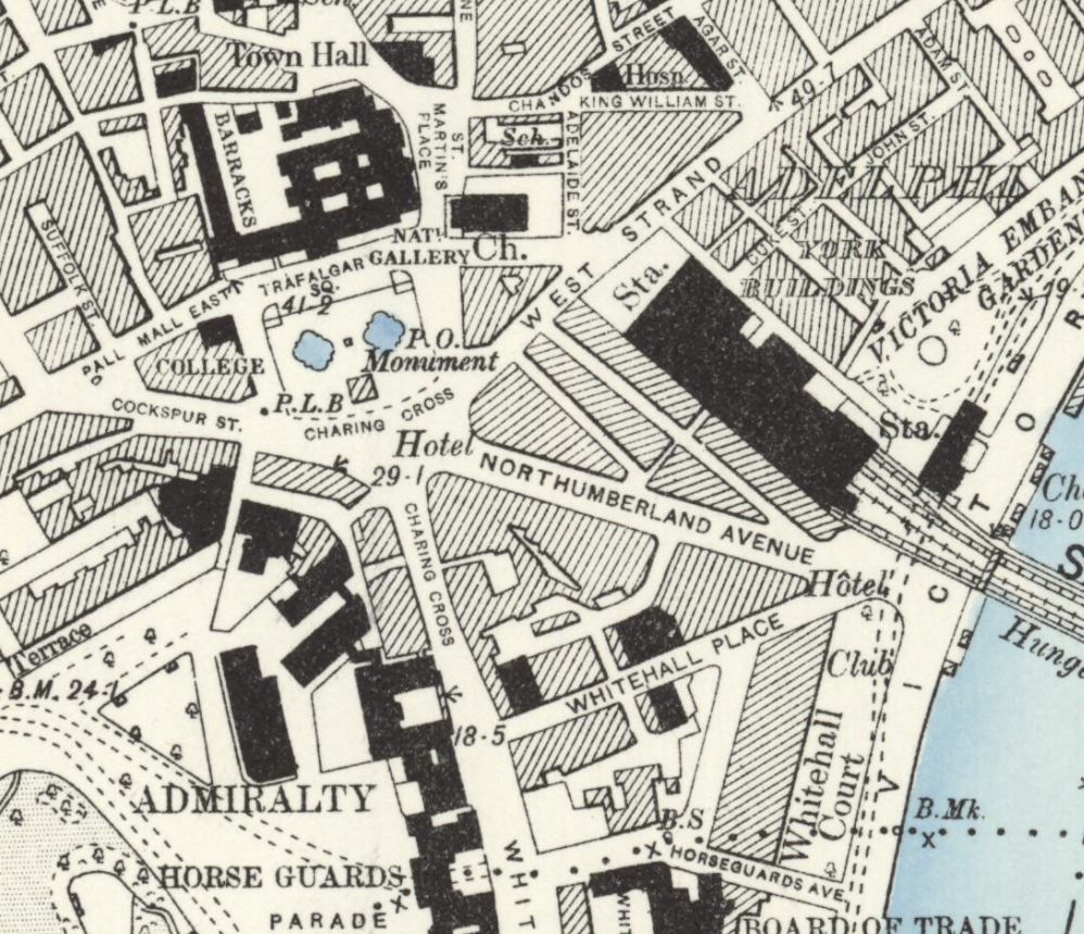 Area around Trafalgar Square, Charing Cross and Northumberland Avenue on a Victorian Ordnance Survey map. Original map scale: Six inches to One Mile/880 feet to One Inch.